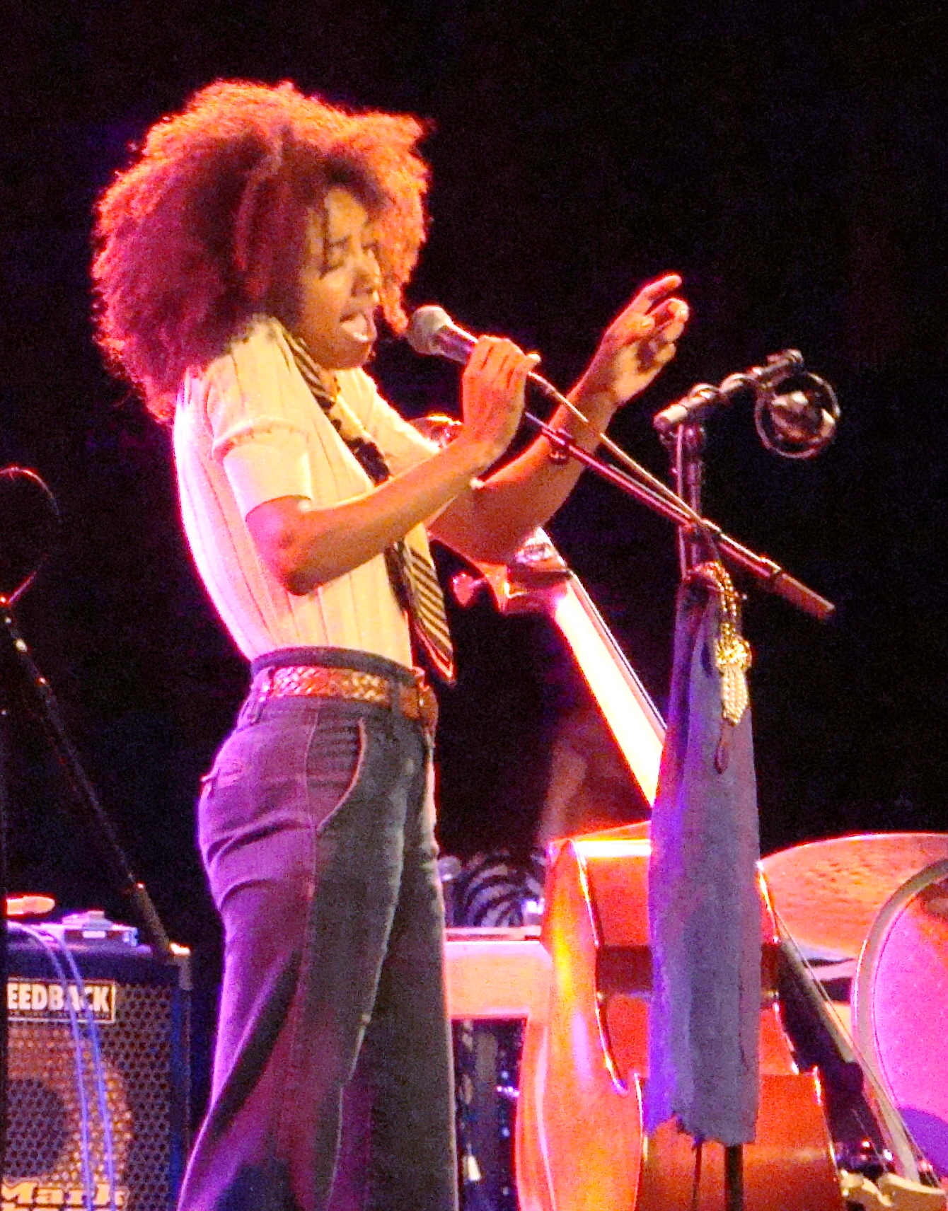 Esperanza Spalding at the North Sea Jazz festival in Rotterdam in 2009